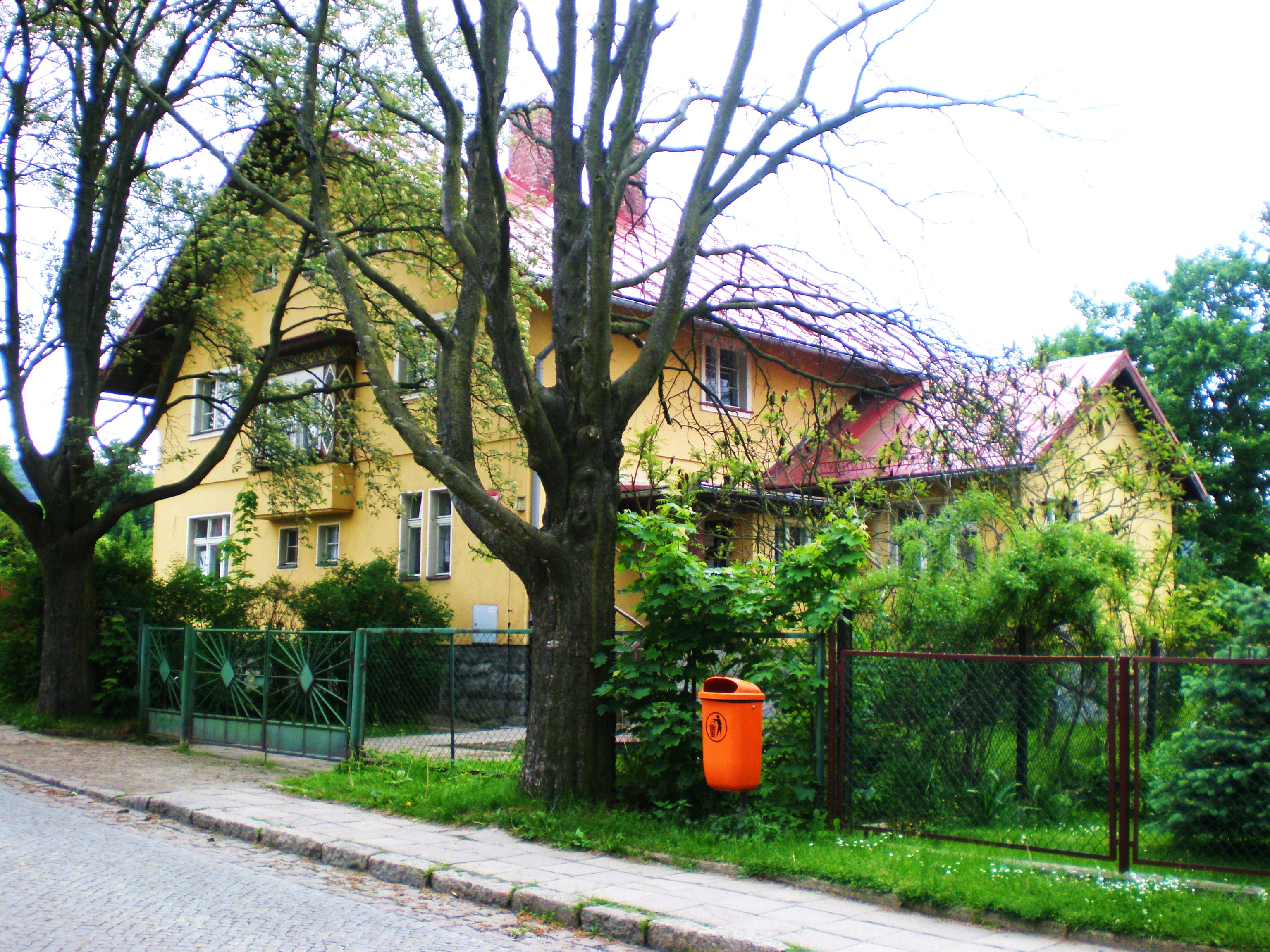 Janowice Wielkie - Municipal Health Centre